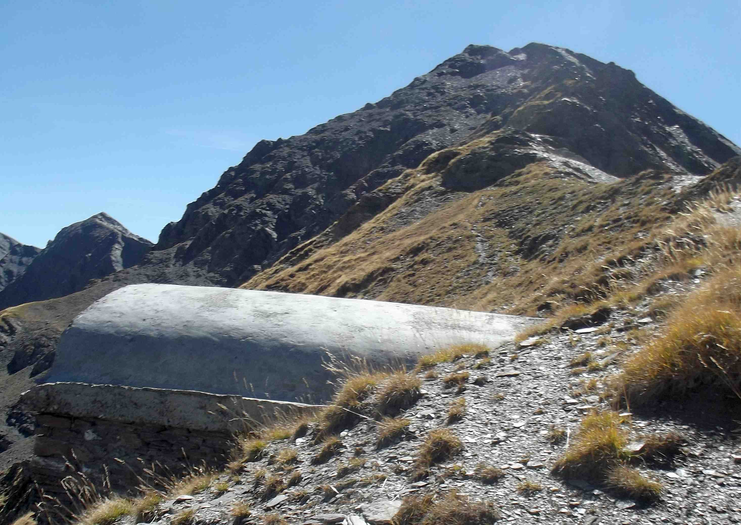 Monte Faraut (Cottian Alps) as seen from Colletto Pence